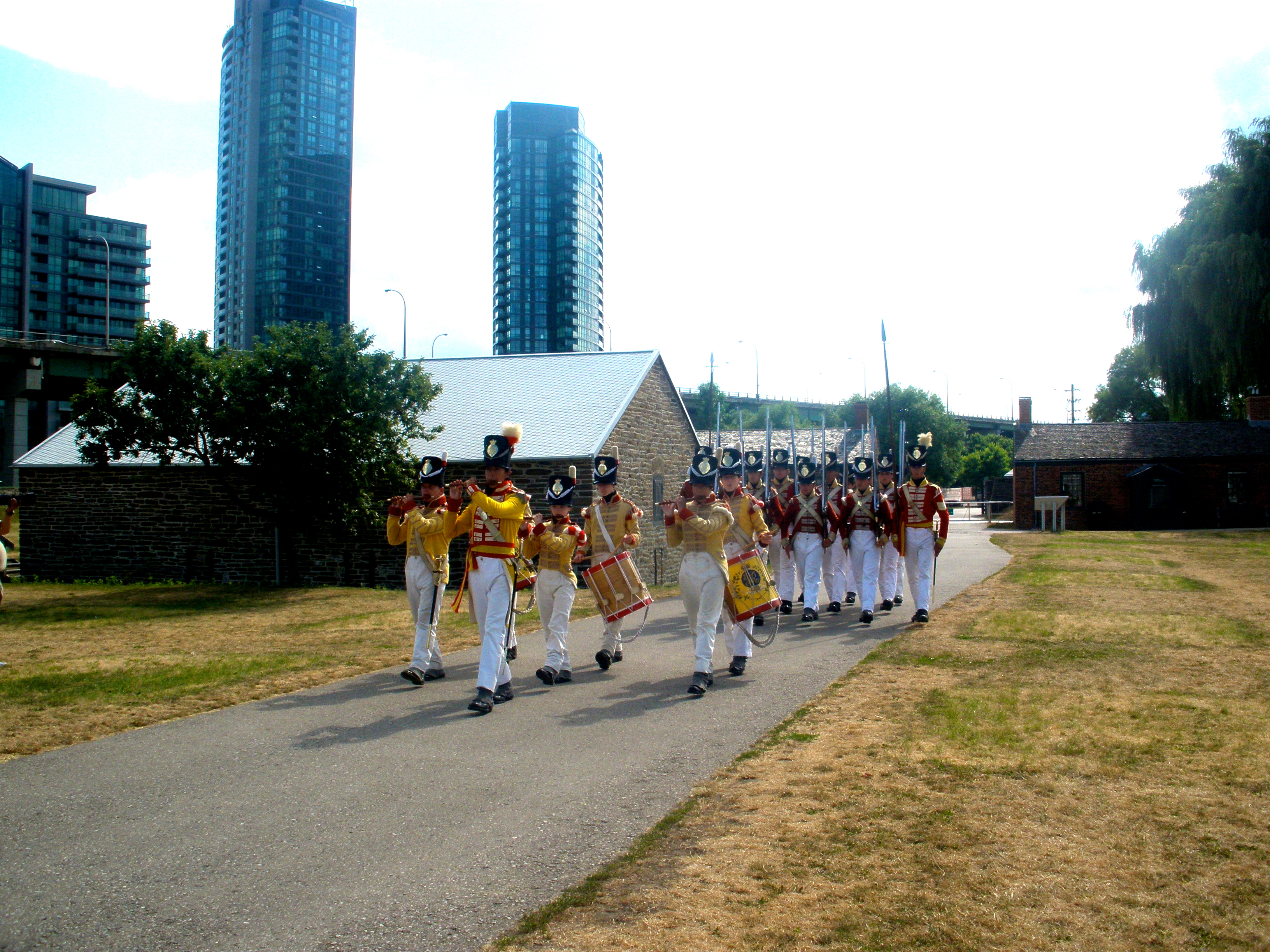 Flag lowering